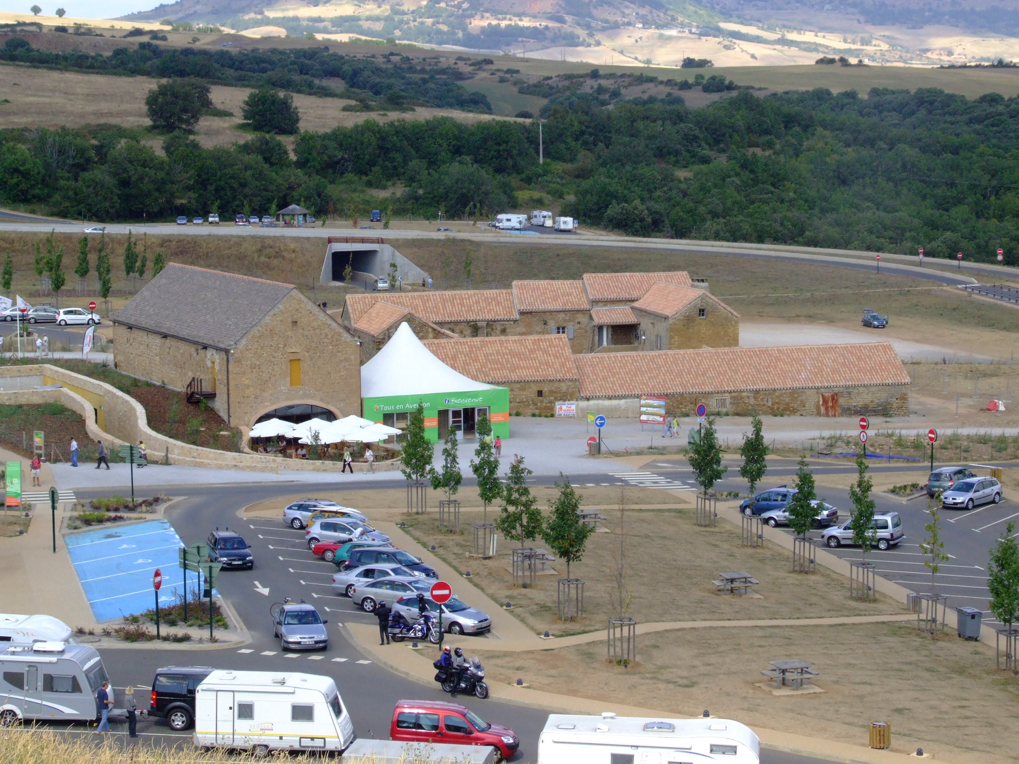 Millau is a commune in the department of Aveyron in southern France. It is located at the confluence of the Tarn and Dourbie rivers.The A75 autoroute (France) crosses the valley on the spectacular viaduct. this aire was built as a tourist attraction.l. Looking over the Aire. In front Parking Nord/Sud, then the visitors centre, the restaurant tent, and the Ferme de Brocuejouls. 2008 - Google Maps - Google Earth